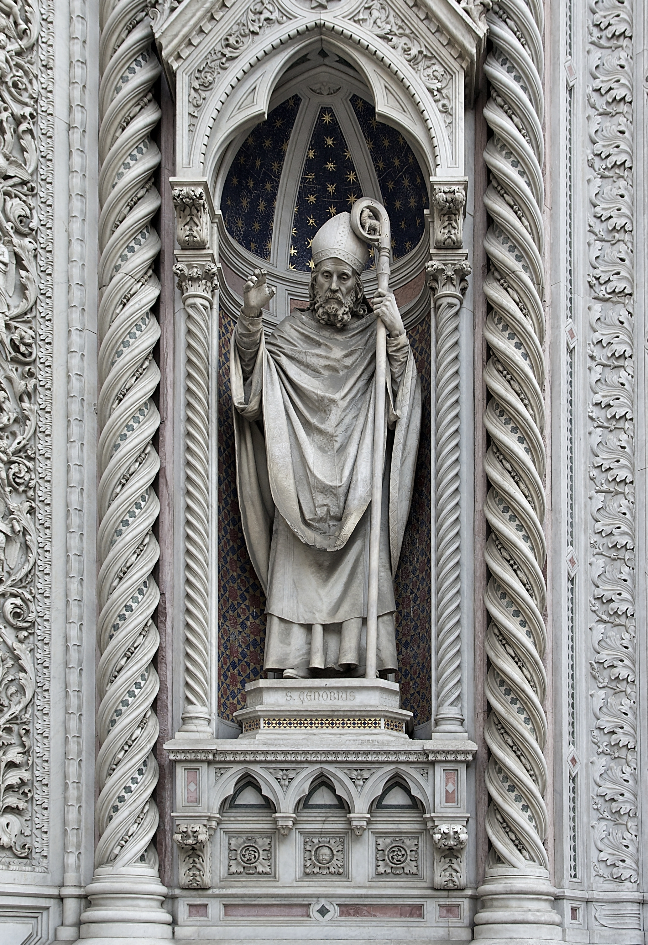 Statue of Saint Zenobius, Presumed first bishop of Florence, Italy. Main portal of the Cathedral Santa Maria del Fiore.